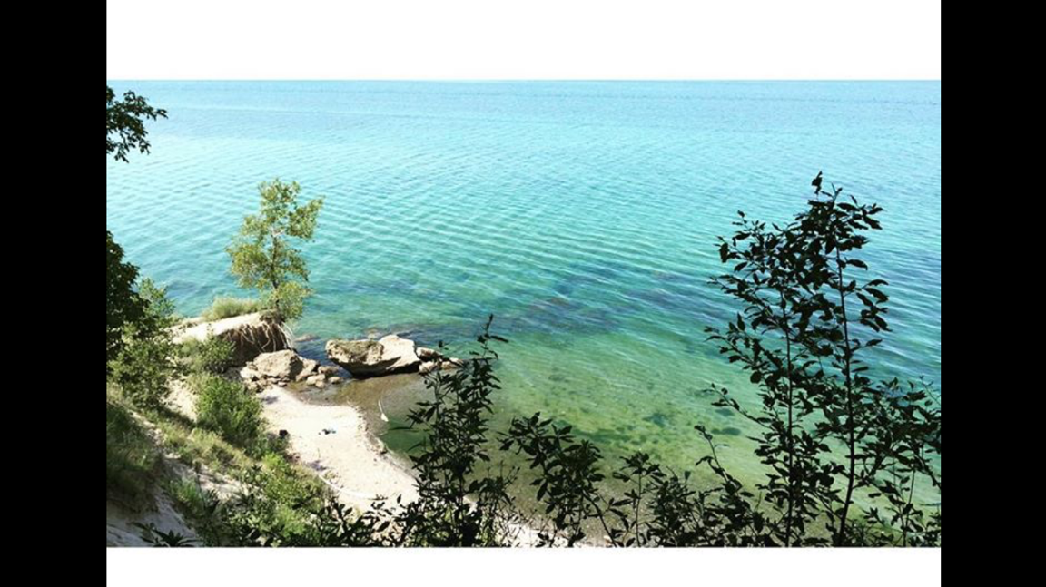 This picture was taken from Hamlin Beach State Park at whats called Devils Nose.